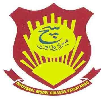 Divisional Model College Faisalabad